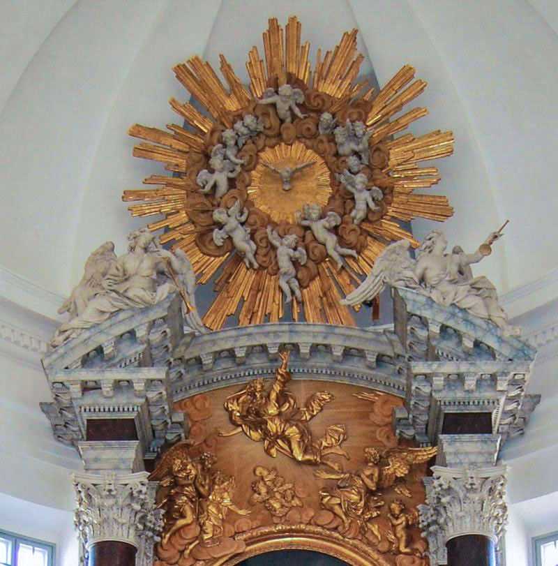 Kalmar Cathedral. Altar's upper part.